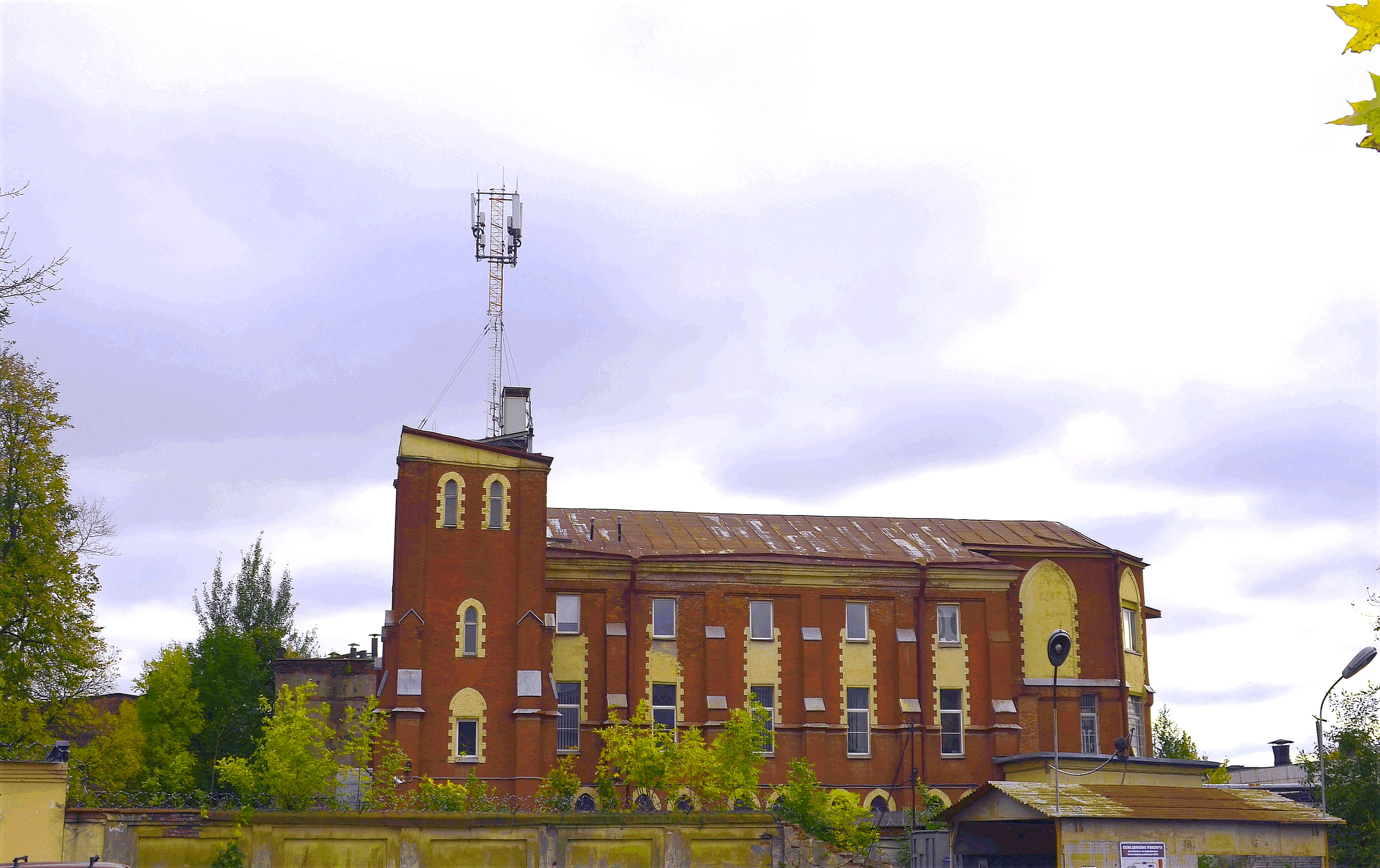 St. Petersburg. Obukhovskoy Oborony Avenue, 129. Alexander ironworks. British-American Church.